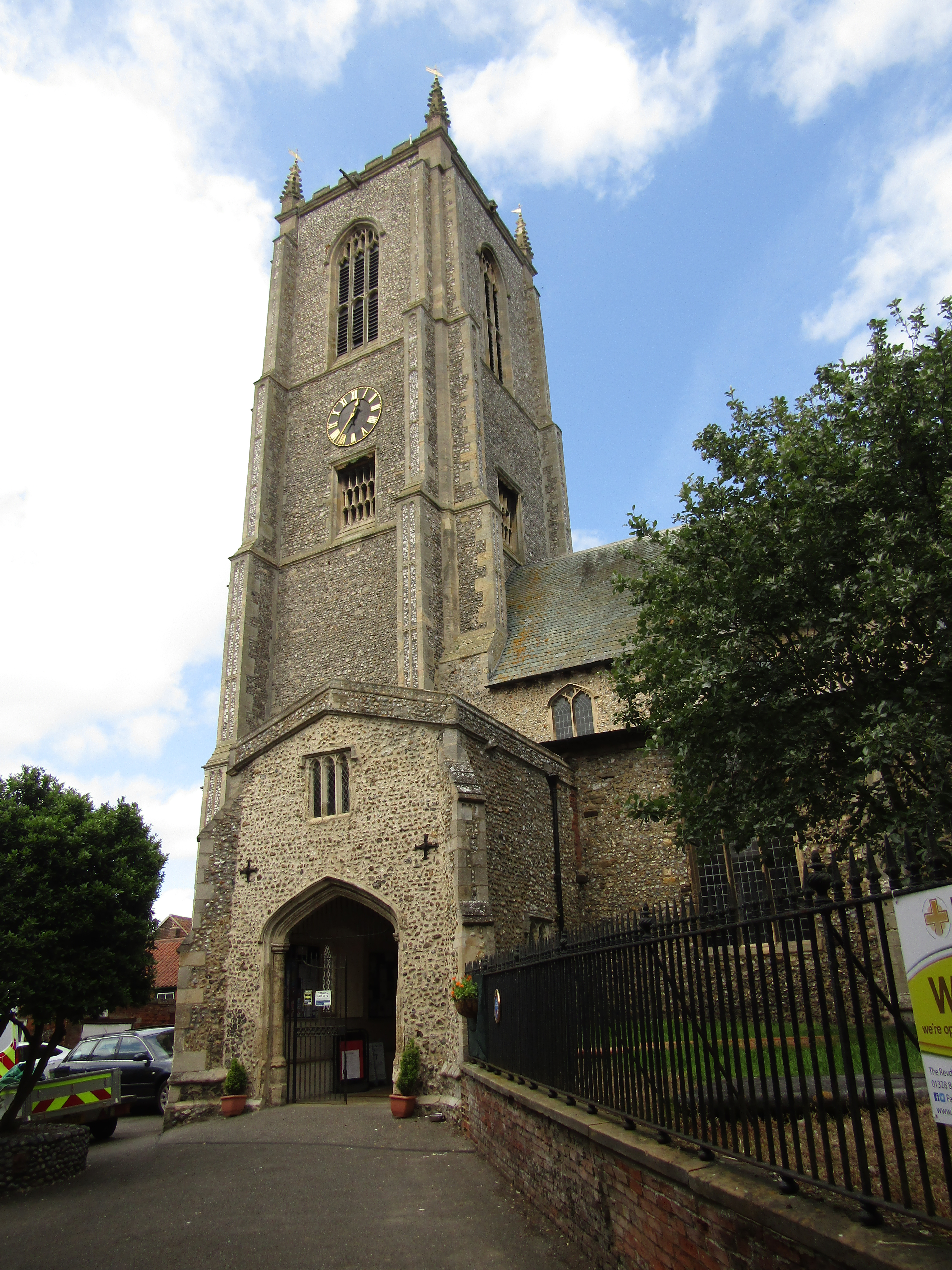 The church tower of Saint Peter and Saint Paul’s parish church located in the town of Fakenham, Norfolk, England.